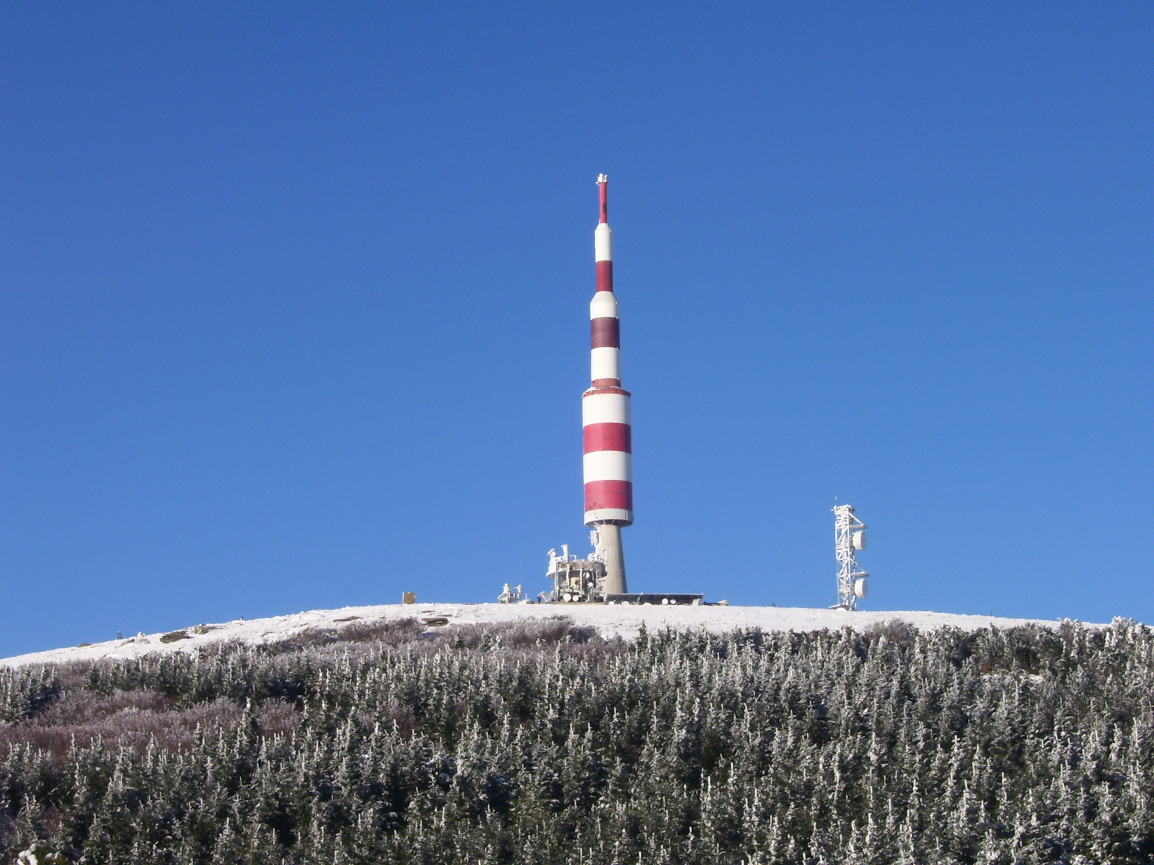 snowly Pic de Nore